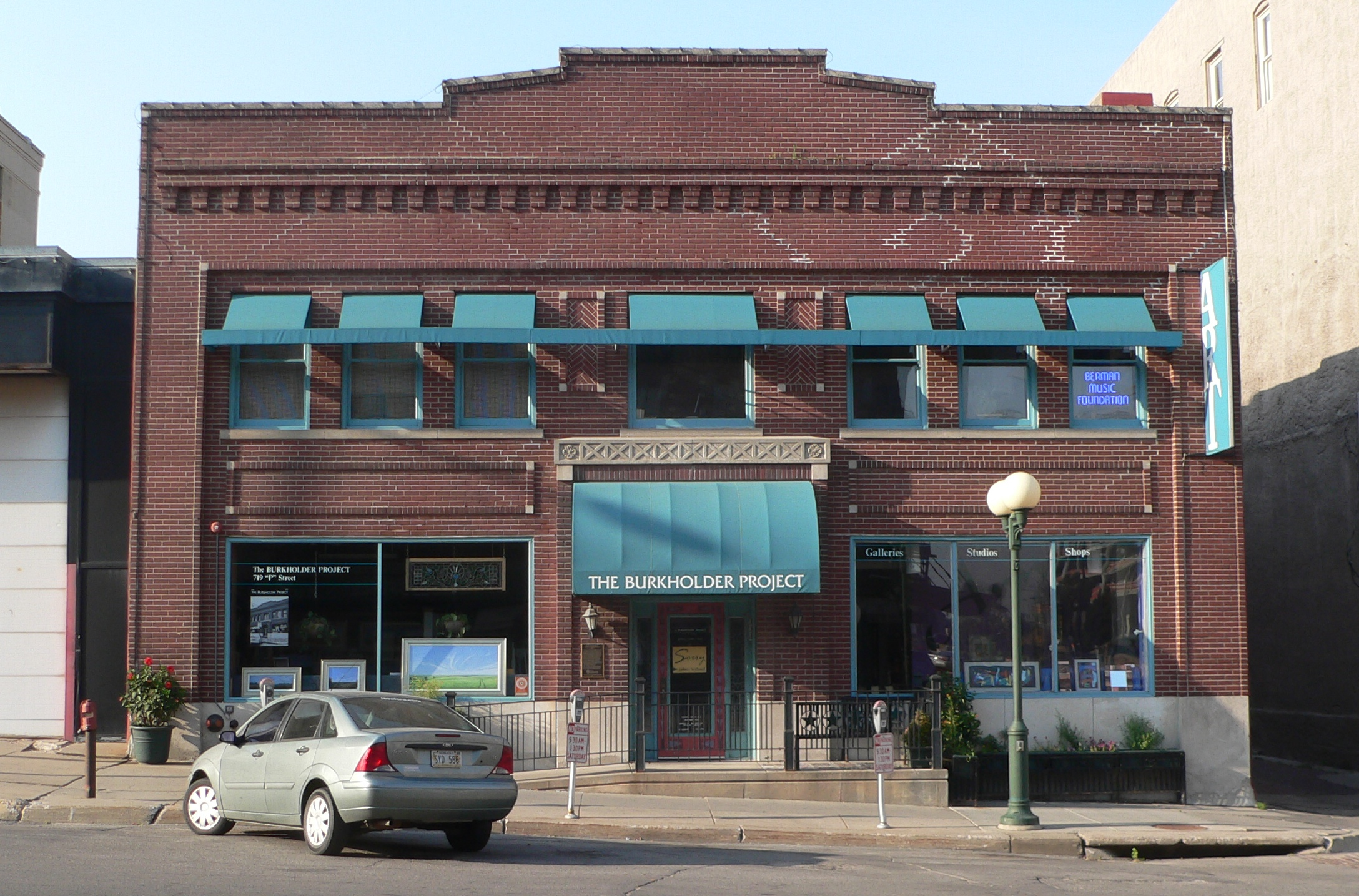 Haymarket District in Lincoln, Nebraska: Old Woods Bros. building, located at 719 P Street; seen from the north. According to a plaque on the building, it was constructed in 1914.